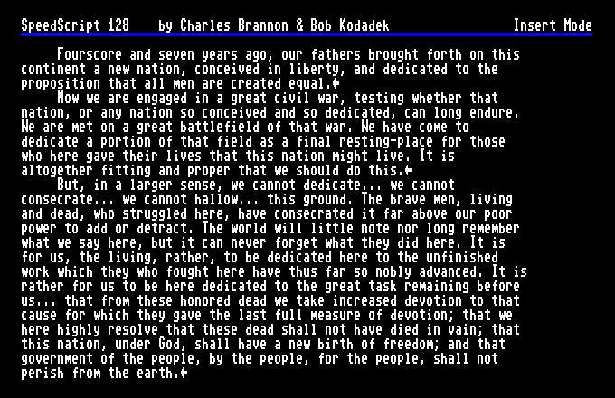 Screenshot of SpeedScript 128